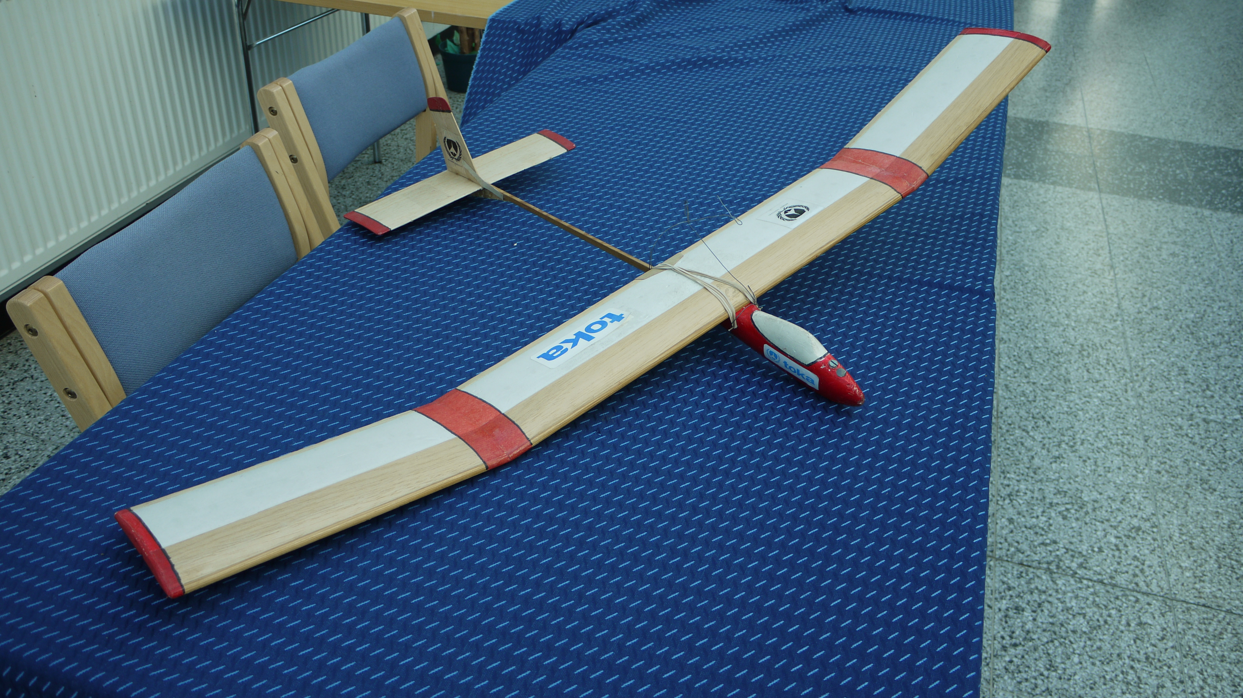 Toka free flight glider, designed by Olavi Lumes.